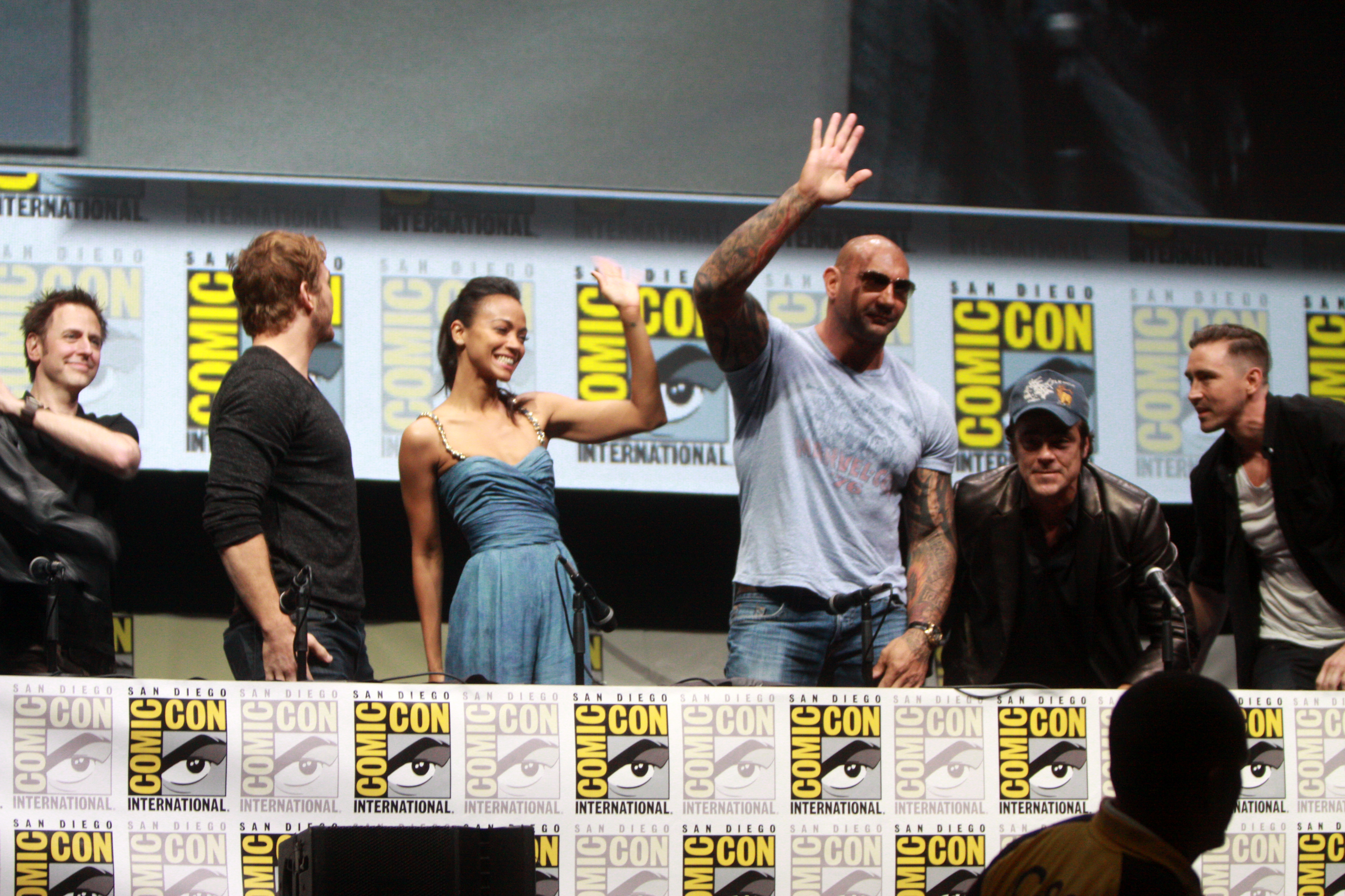 James Gunn, Chris Pratt, Zoe Saldana, Dave Bautista, Benicio Del Toro and Lee Pace speaking at the 2013 San Diego Comic Con International, for "Guardians of the Galaxy", at the San Diego Convention Center in San Diego, California.